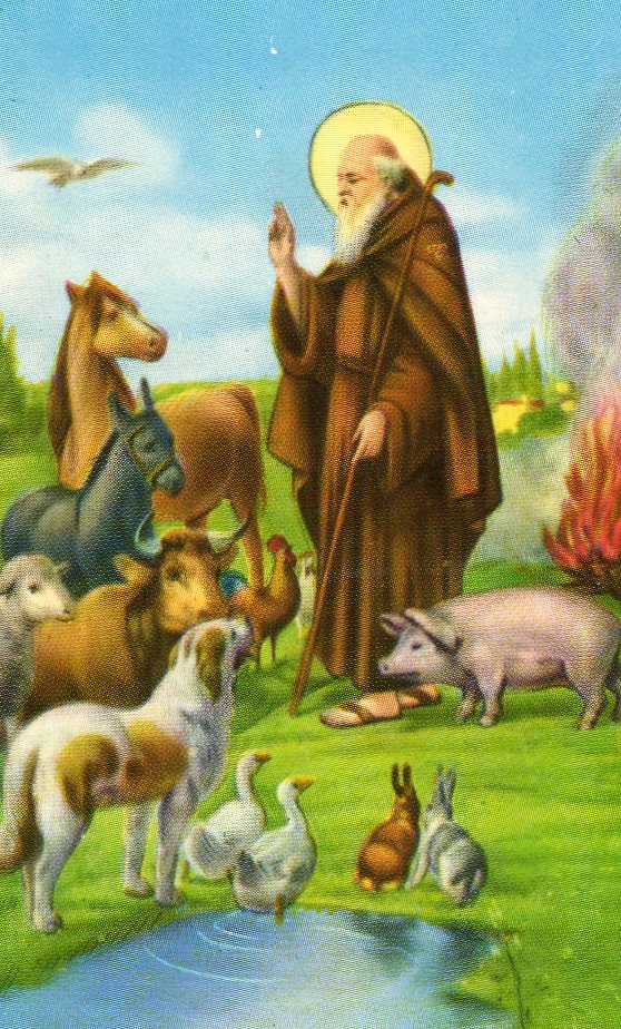 S.Antonio